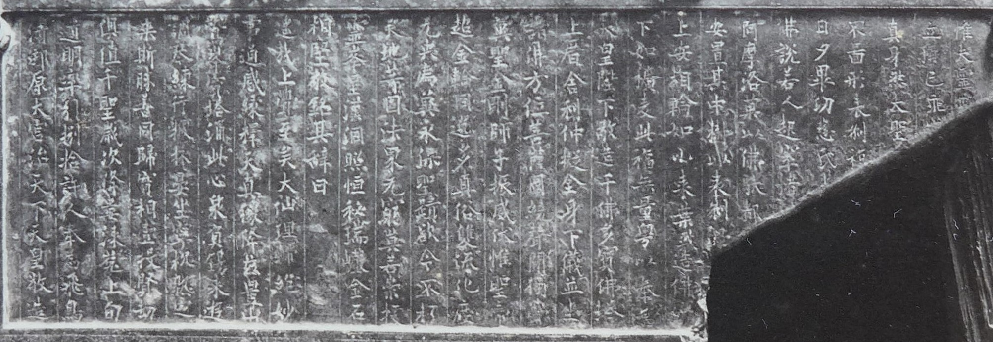 Description incised on Bronze plaque depicting Shaka delivering a sermon. Casted and Beaten Bronze, Dated by cycle year: many scholars regards ACE698, SIZE TOTAL of the palque(not this description)84.0cm (height) x 75.0cm (width). Hase-dera Temple, Sakurai, Nara , Japan